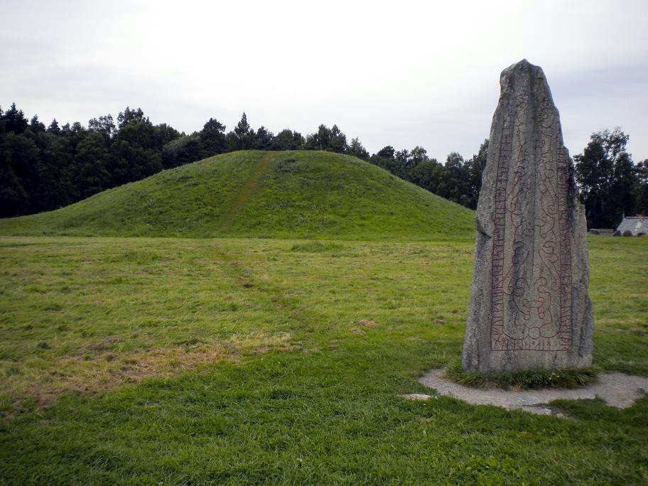 The Anwynd tumulus Anundshög at Badelunda, as released by image creator RistessonPlace: West Aros, Sweden